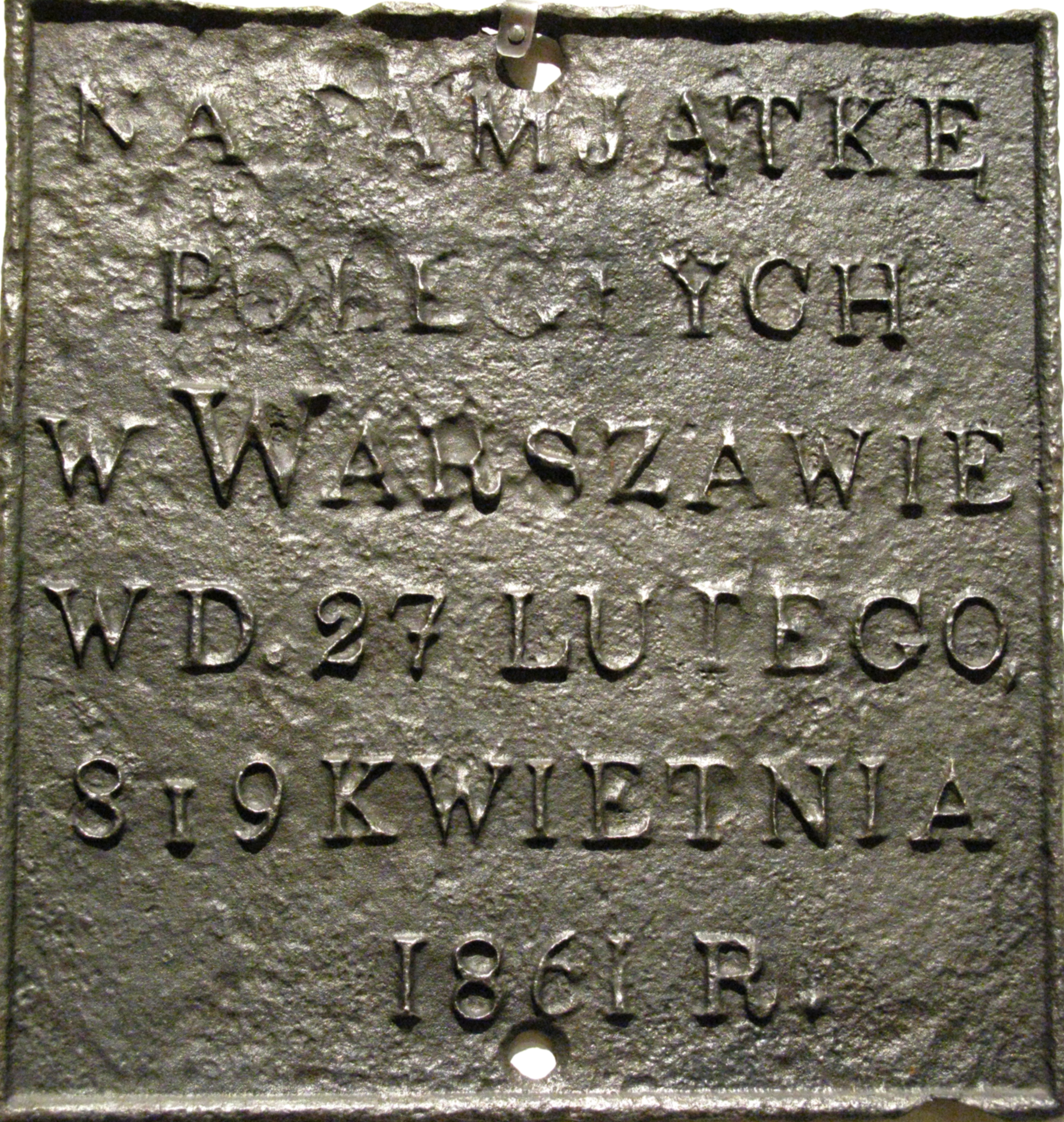 CommemoratiCategory:Five Victimsve plaque of Polish civilians killed by Russian Army in Warsaw in 1861